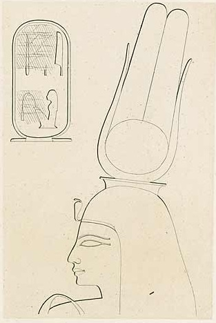 Queen Tey depicted at the rock chapel at Akhmim